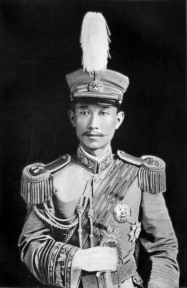 General Tsao-ao, the Hero of the Yunnan Rebellion of 1915-16, who died from the effects of the campaign.